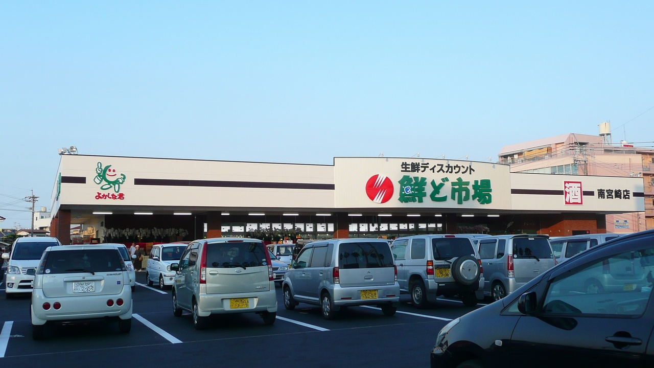 Sendo Ichiba (Supermarket - Southern Miyazaki City, Japan)